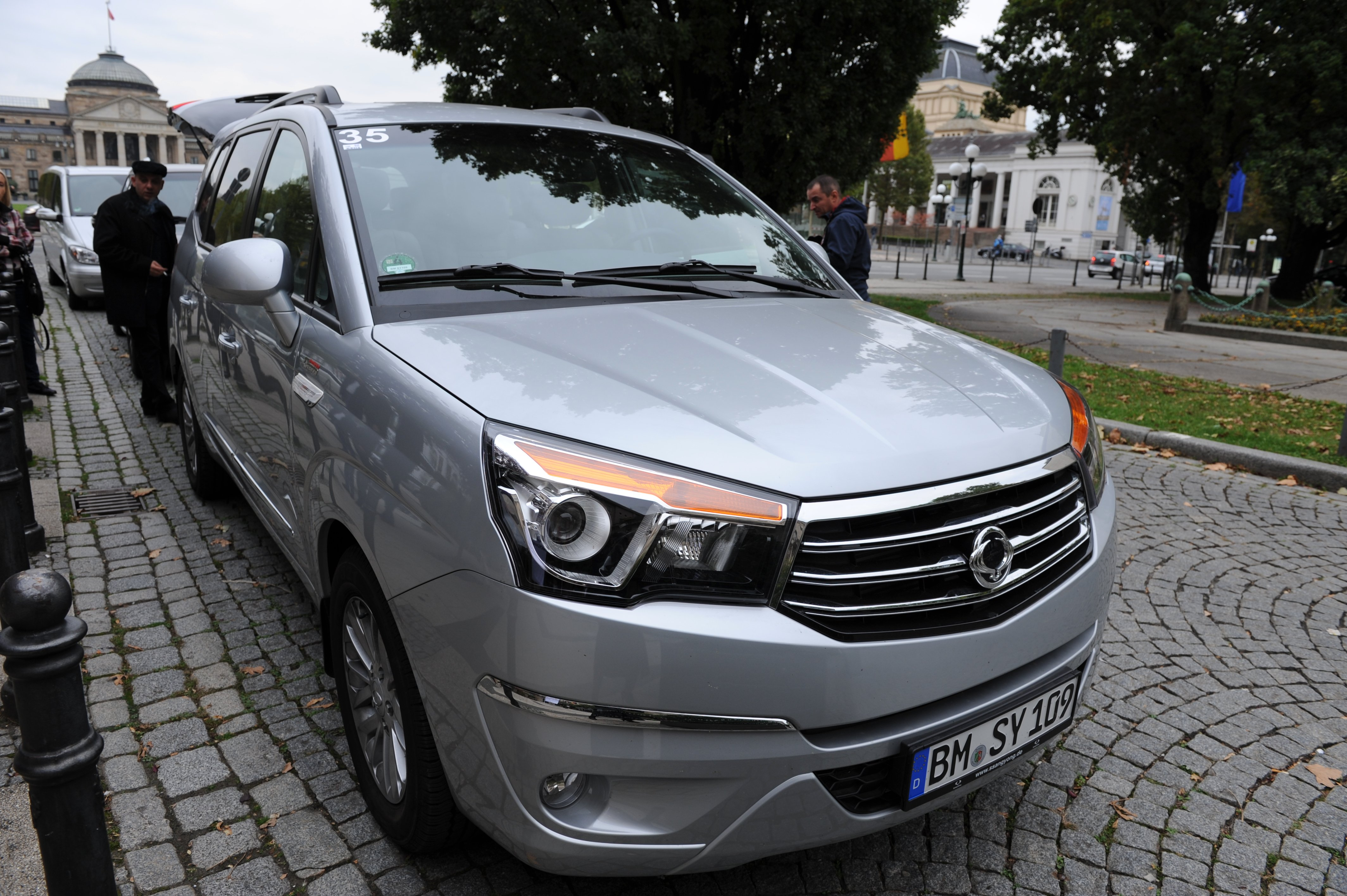 Ssang Yong Rodius pictured in Wiesbaden (Germany).